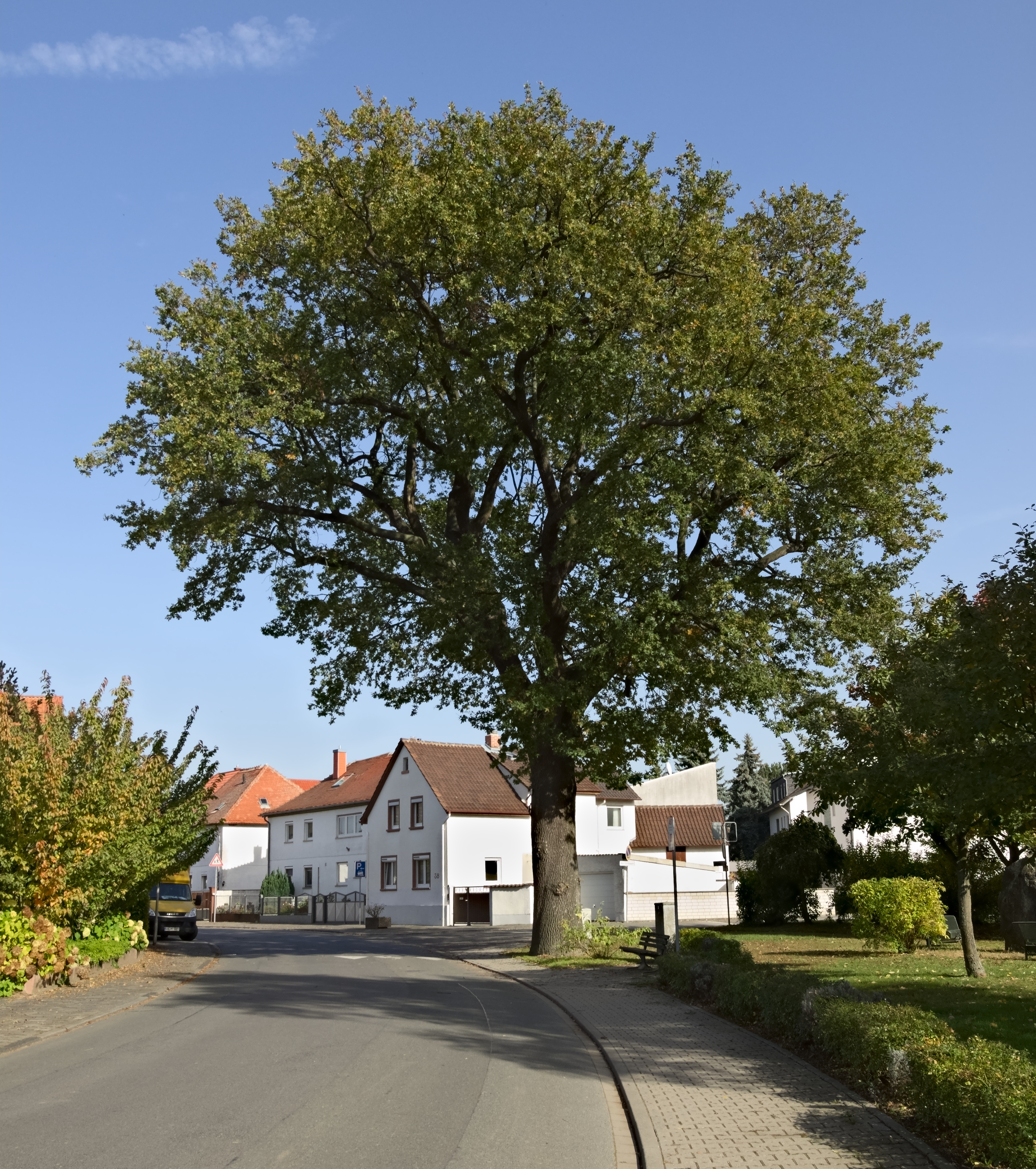 „Friedenseiche“ (Oak of Peace), Pfungstadt-Hahn, Germany